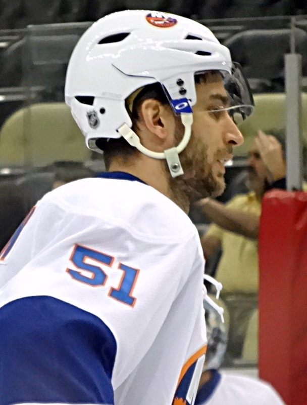 New York Islanders forward Frans Nielsen during round one, game five of the 2013 Stanley Cup playoffs against the Pittsburgh Penguins, May 9, 2013 at Consol Energy Center.